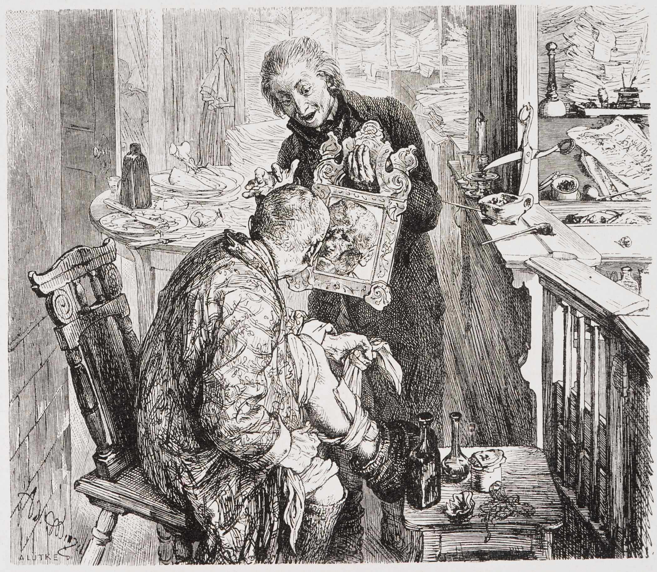 Germany, 1877 Prints; engravings Wood engraving Image: 4 7/8 x 5 3/4 in. (12.38 x 14.61 cm); Primary support: 6 7/8 x 7 3/8 in. (17.46 x 18.73 cm); Secondary support: 9 3/8 x 12 1/4 in. (23.81 x 31.12 cm); Mat: 13 3/4 x 19 5/8 in. (34.93 x 49.85 cm) Gift of Thomas Le Claire (M.2001.61.2) Prints and Drawings